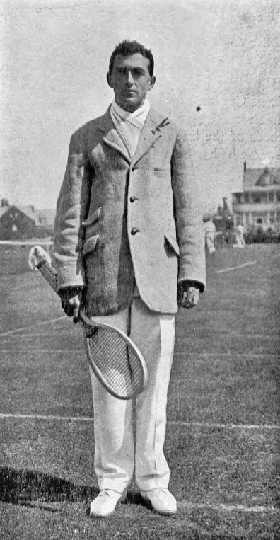 English tennis player Alfred Ernest Beamish (6 August 1879 – 28 February 1944) w